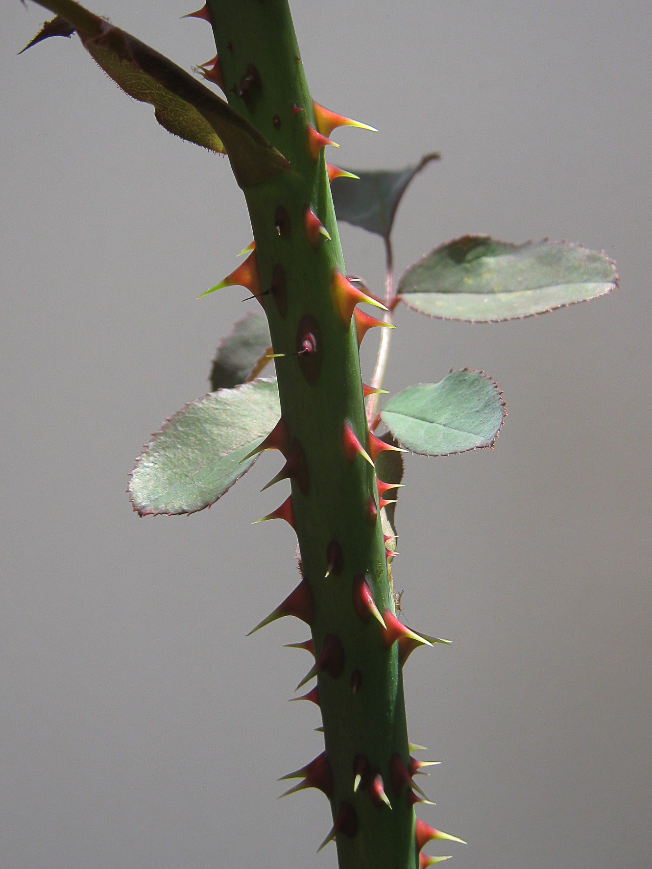 Rose 'Prudence' 1938 hybrid tea climber by Olive Fitzhardinge: photographed in St Kilda, Victoria